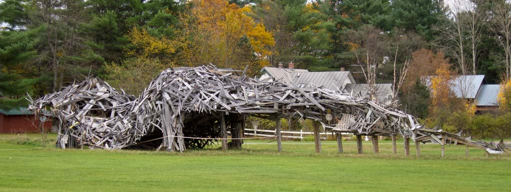 The Vermontasaurus sculpture at Post Mills, Vermont after its 3 October 2011 collapse.